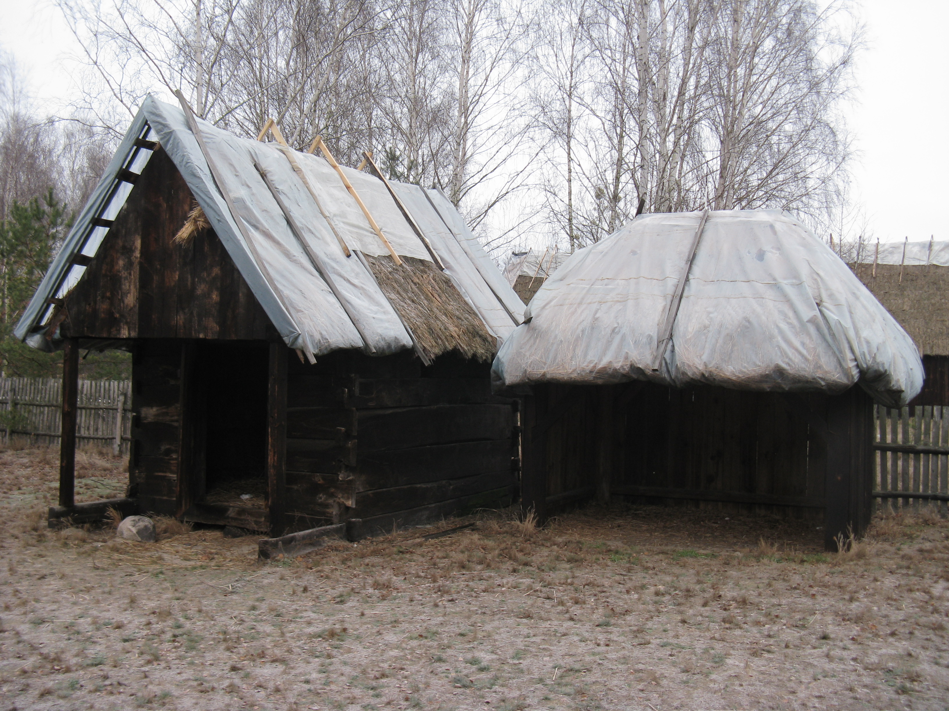 open air museum in Granica